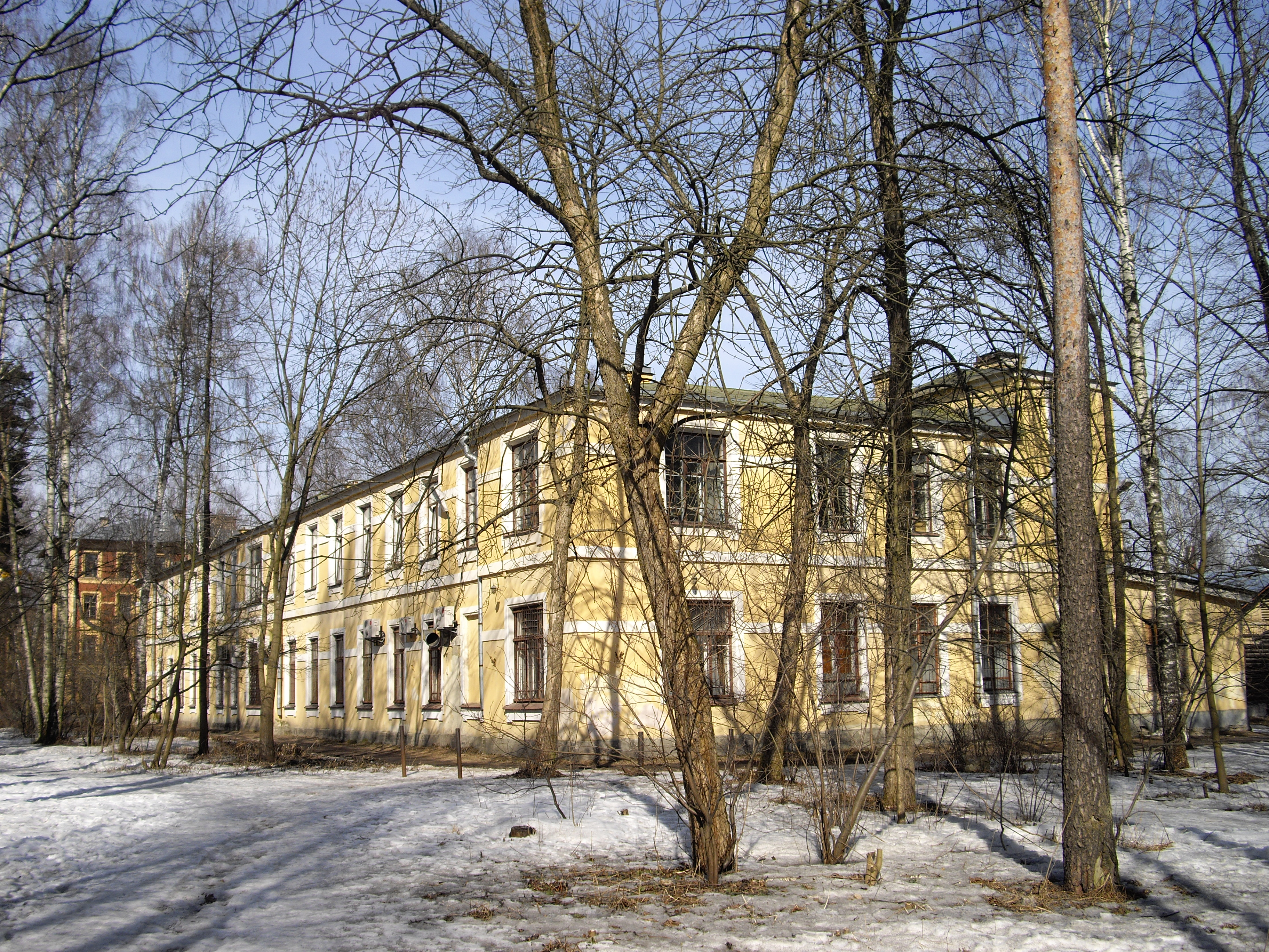 The House of Scientists in Lesnoy (in the park of Saint-Petersburg State Polytechnical University).